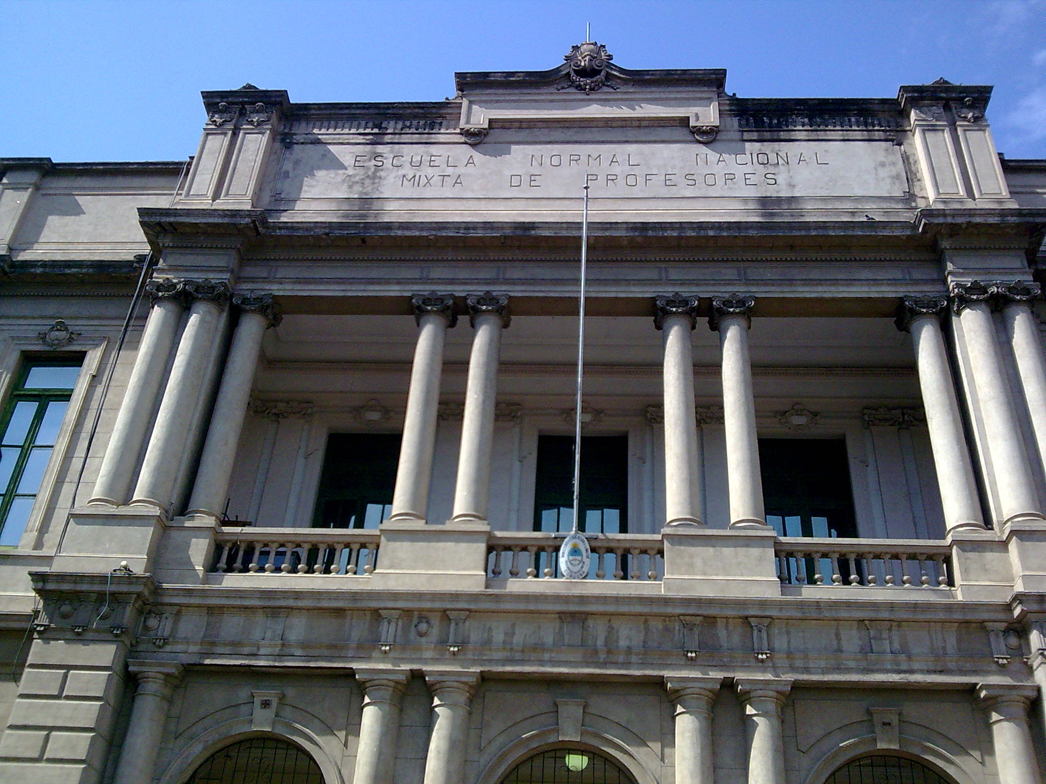 Alejandro Carbo high school. Cordoba, Argentina.